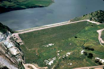 Twitchell Dam and Twitchell Reservoir — on the Cuyama River, in San Luis Obispo and Santa Barbara County, central California.